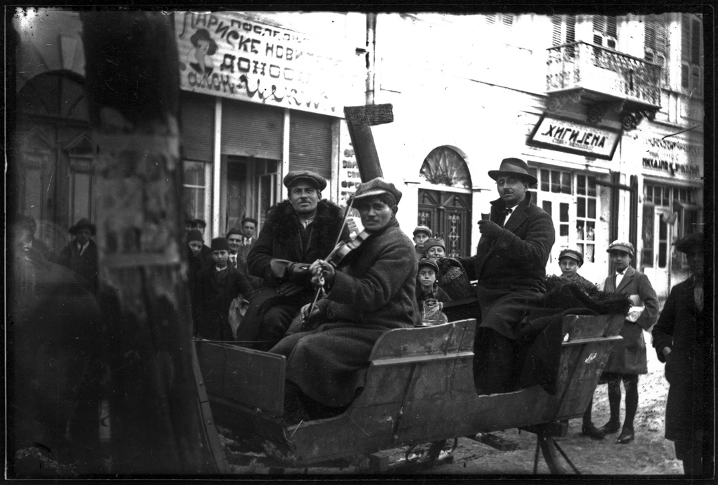 Bohemian with musicians in Bitola streets. Glass plate (98x148 mm) Bitola, about 1930 This media file is produced by Wikipedian in Residence in Category:Wikipedian in Residence at DARM in 2016.